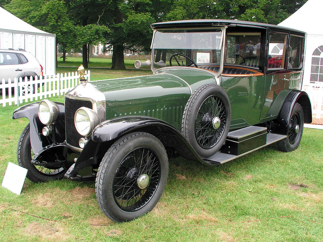 30 HP model powered by a 5355 cc 6-cylinder monobloc engine with sleeve-valves, made in Belgium by Minerva Motors SA; front left-side view